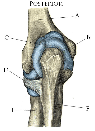 From Gray's Anatomy